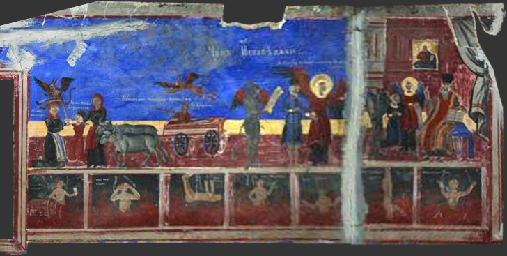 Frescos in Assumption of Mary Church in Yasen by Petar Noven and Avram Dichov, 1883